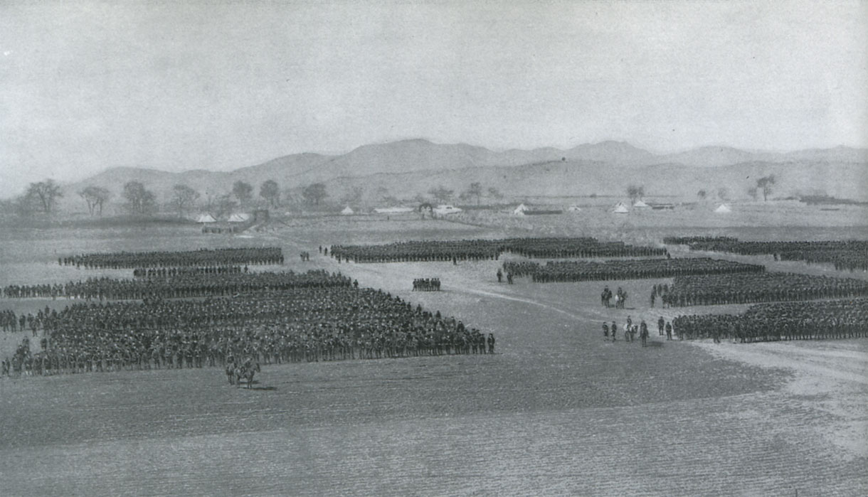 Formation of a division of the Japanese 1st. Army after the Battle of Mukden